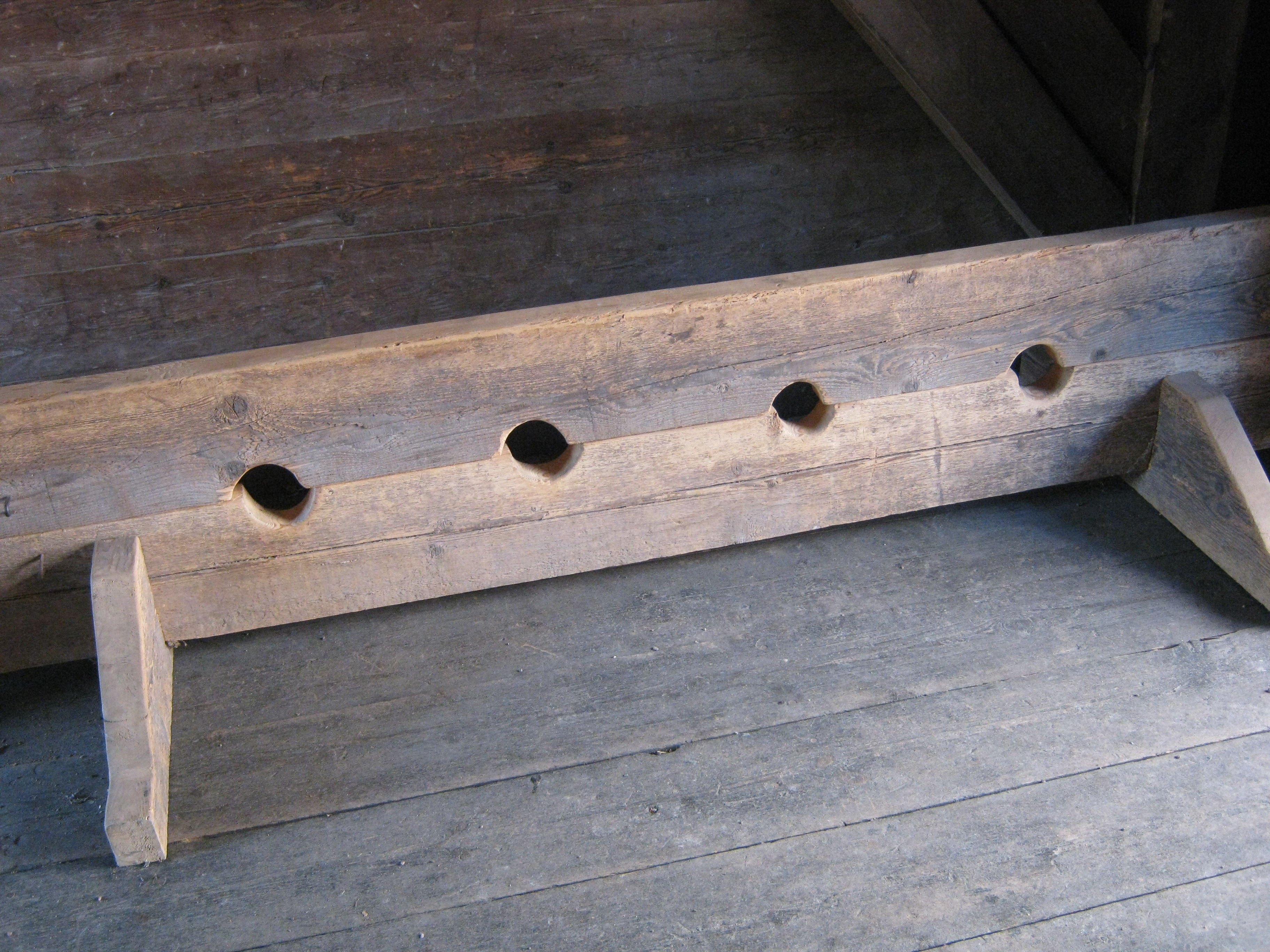 Old stocks at the bell tower of the St. Olof's Church, Ulvila, Finland.